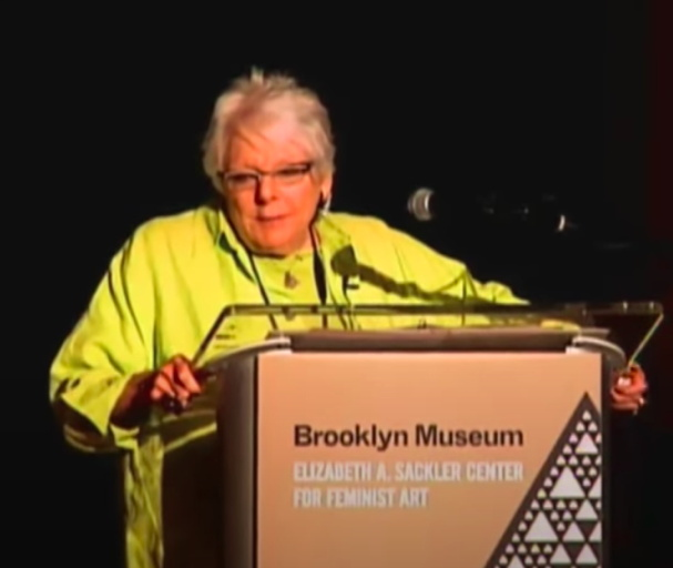 Linda Nochlin, Professor of Modern Art at New York University's Institute of Fine Arts. April 18, 2012, honored with Sackler Center First Awards. The event commemorated the fifth anniversary of the Elizabeth A. Sackler Center for Feminist Art, Brooklyn Museum.